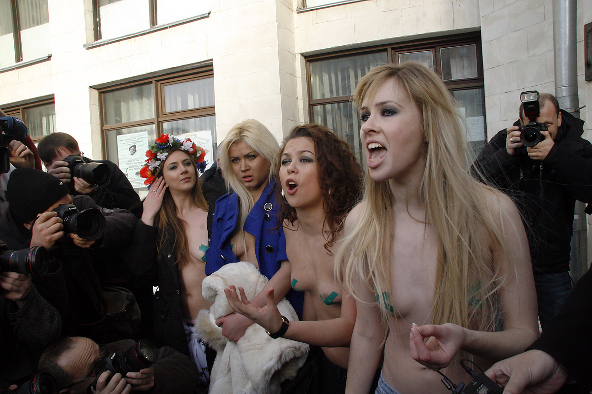 Members of the activist group Femen protest at what they see as the manipulation of the democratic system at a polling station in Kiev, Ukraine, Sunday, Feb. 7, 2010. The signs read "The War Begins Here" and "Stop Raping the Country."